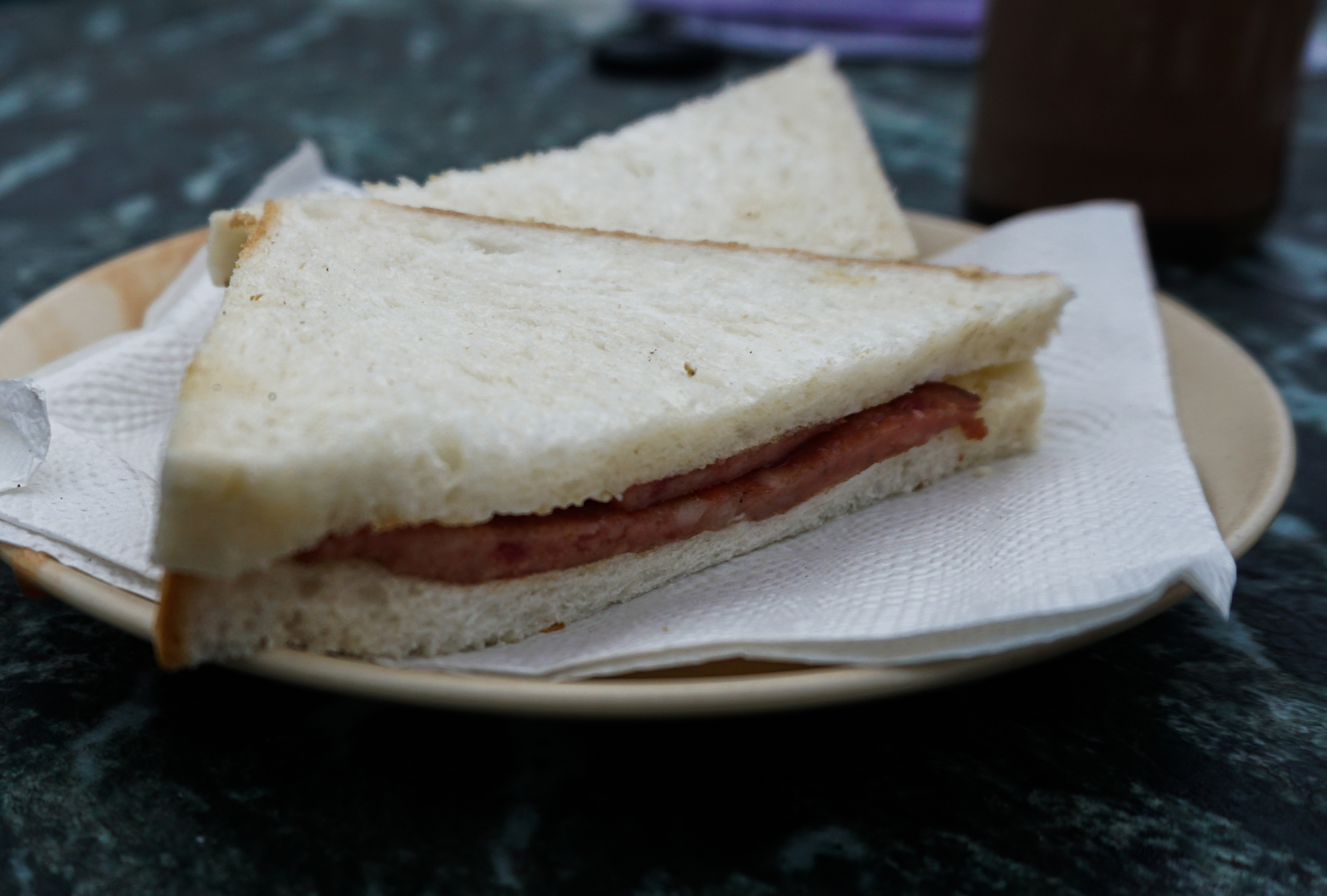 Ham Sandwich